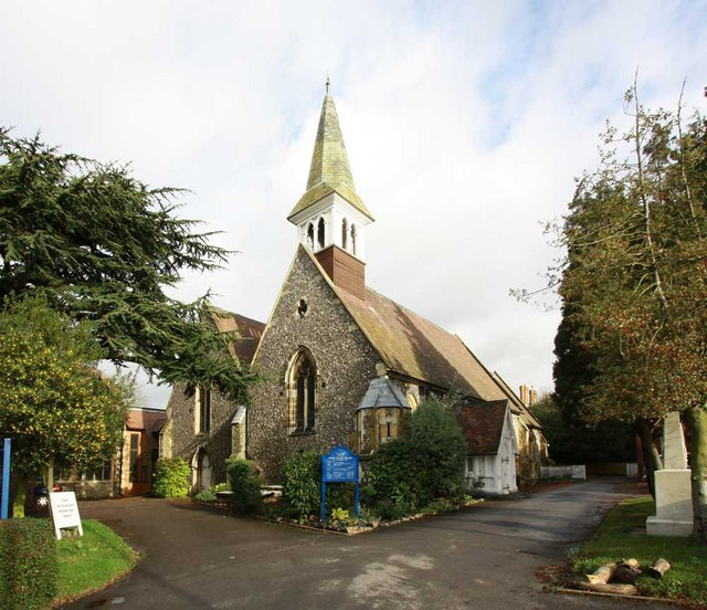 Christ Church, Barnet, Herts